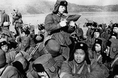 Lei Feng (18 December 1940 – 15 August 1962) was a soldier of the People's Liberation Army of China.